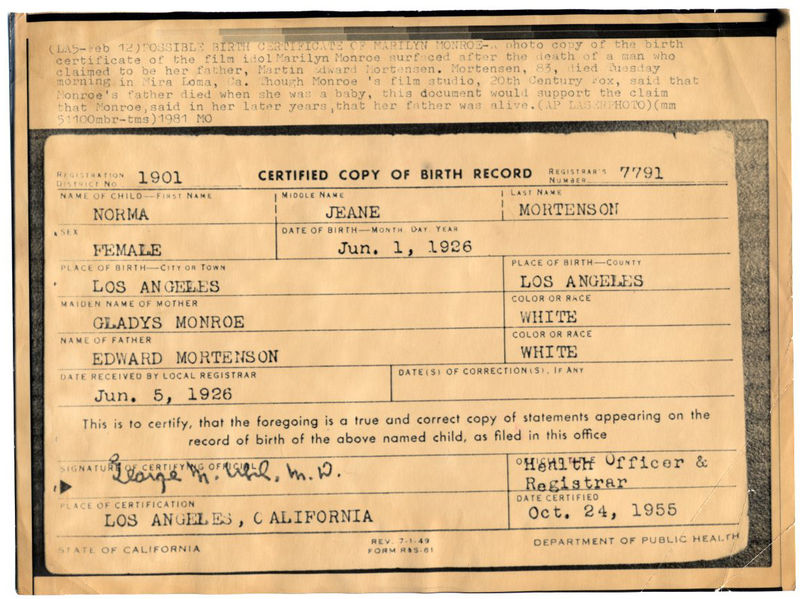 Claimed to be a Birth certificate of Marilyn Monroe, born Norma Jeane Mortenson on June 1, 1926. The birth record was created by a local registrar on June 5, 1926, and this certified copy of that information was issued by a Health Officer & Registrar on October 24, 1955. It was photographed and then used for the 1981 article about the death of her father, Edward Mortensen, as depicted on the certificate. Mother was Gladys Monroe; Monroe was a surname that Marilyn Monroe officially used. According to the original caption: Monroe's film studio, 20th Century Fox, stated that her father died when she was a baby but this certificate shows that Edward Mortensen, who had claimed to be her father, was alive until 1981.